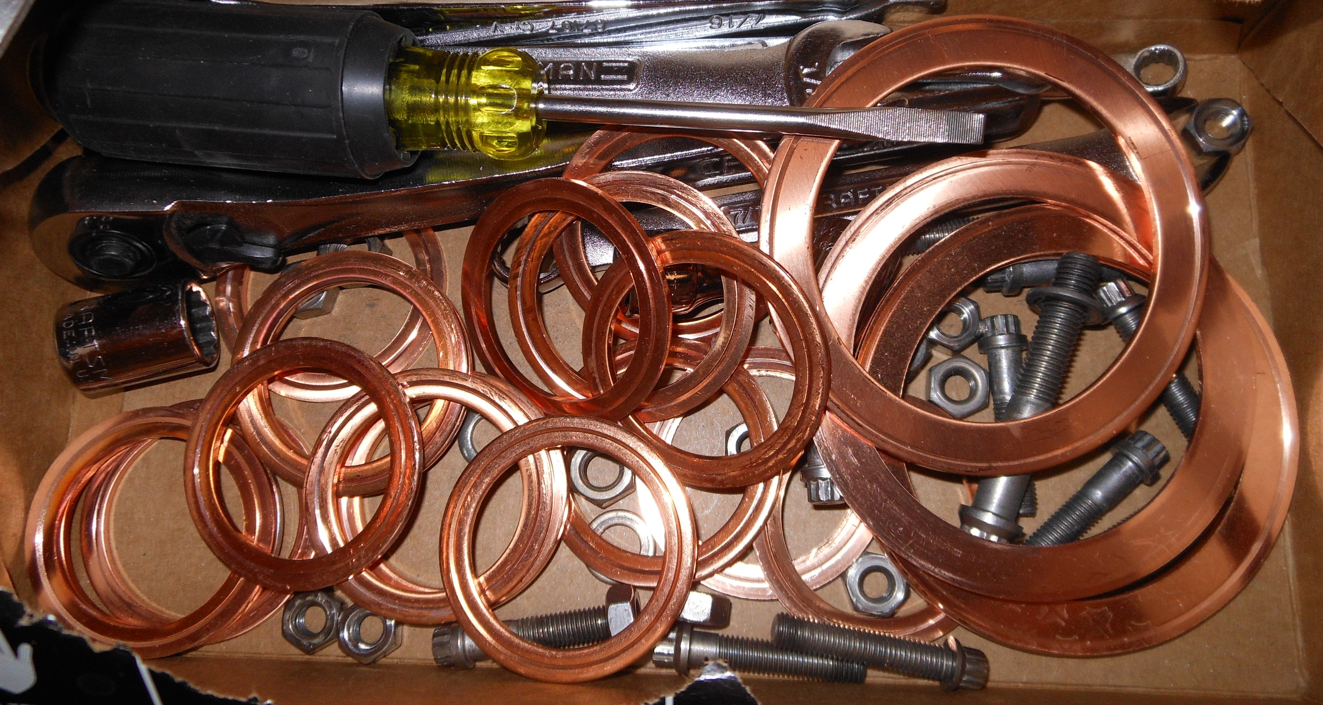 Image shows copper flange gaskets of two different sizes used for ultrahigh vacuum (UHV) fittings. The concentric engraving near the edges indicates that the gaskets were used.